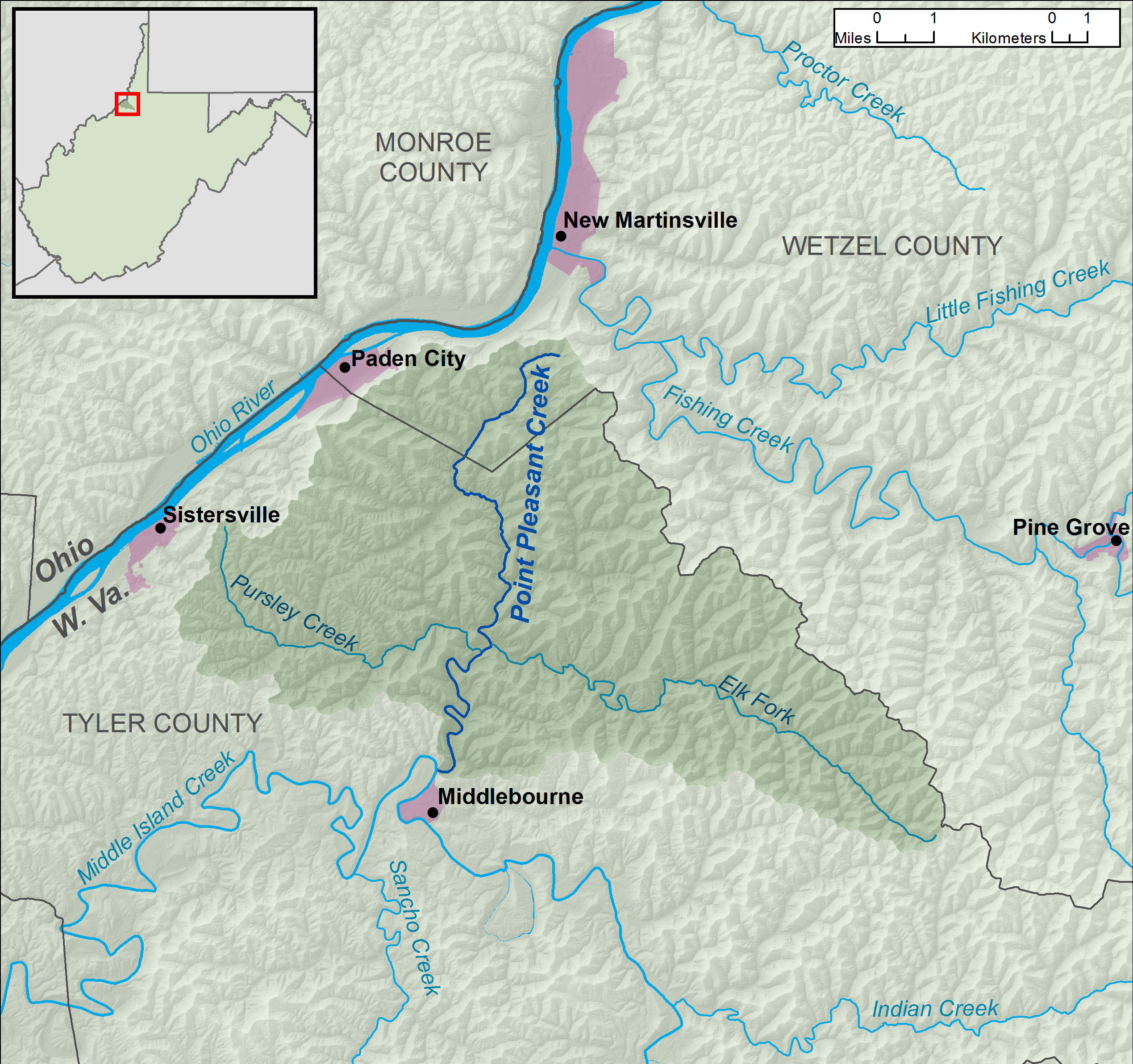 A map of Point Pleasant Creek and its watershed (USGS HUC-12 codes 050302010502 and 050302010503), in Tyler and Wetzel counties in West Virginia.